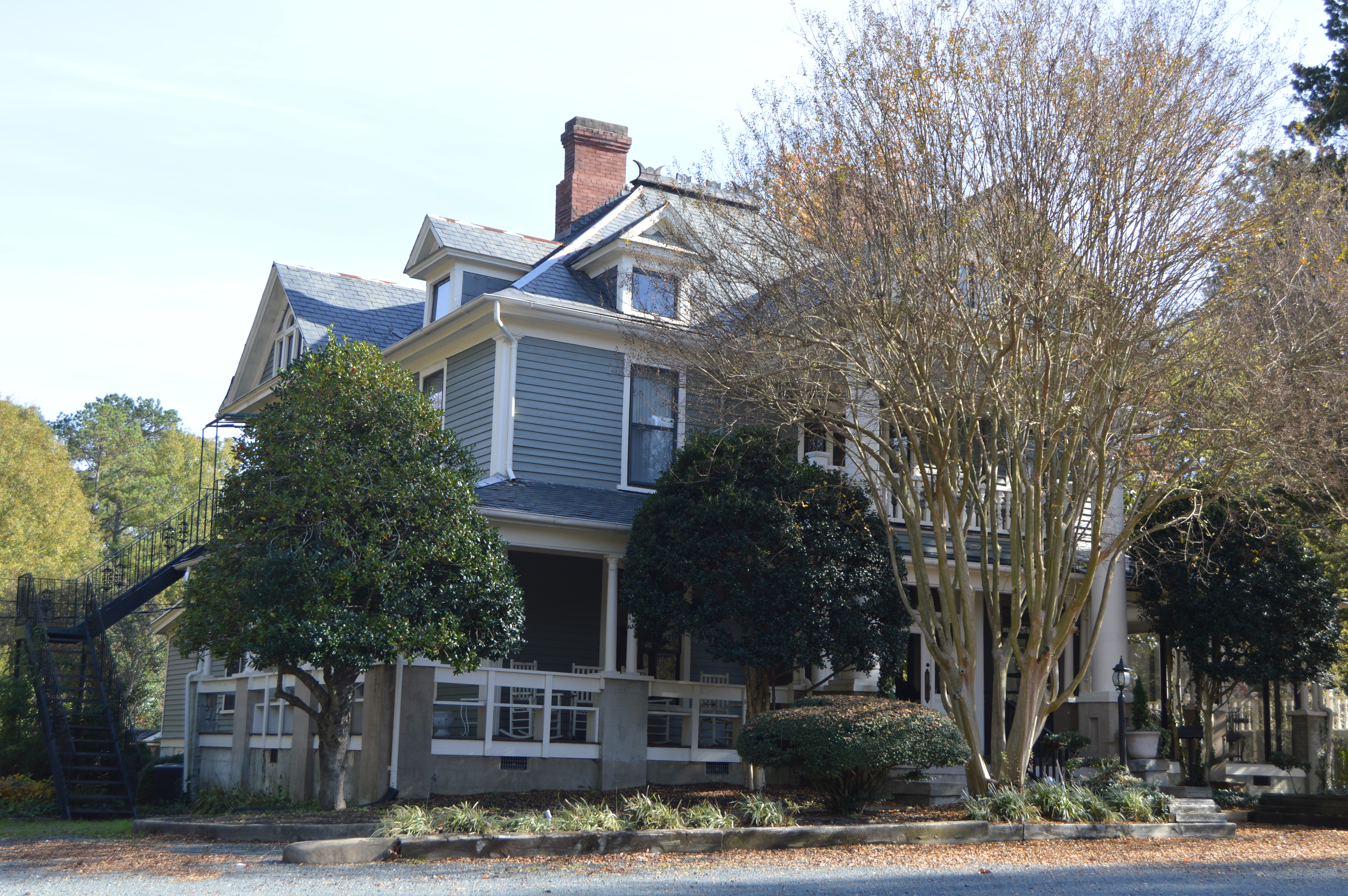 Front and northern side of Bartlett Mangum House, located at 2701 Chapel Hill Road in Durham, North Carolina, United States. Built in 1908, it is listed on the National Register of Historic Places.